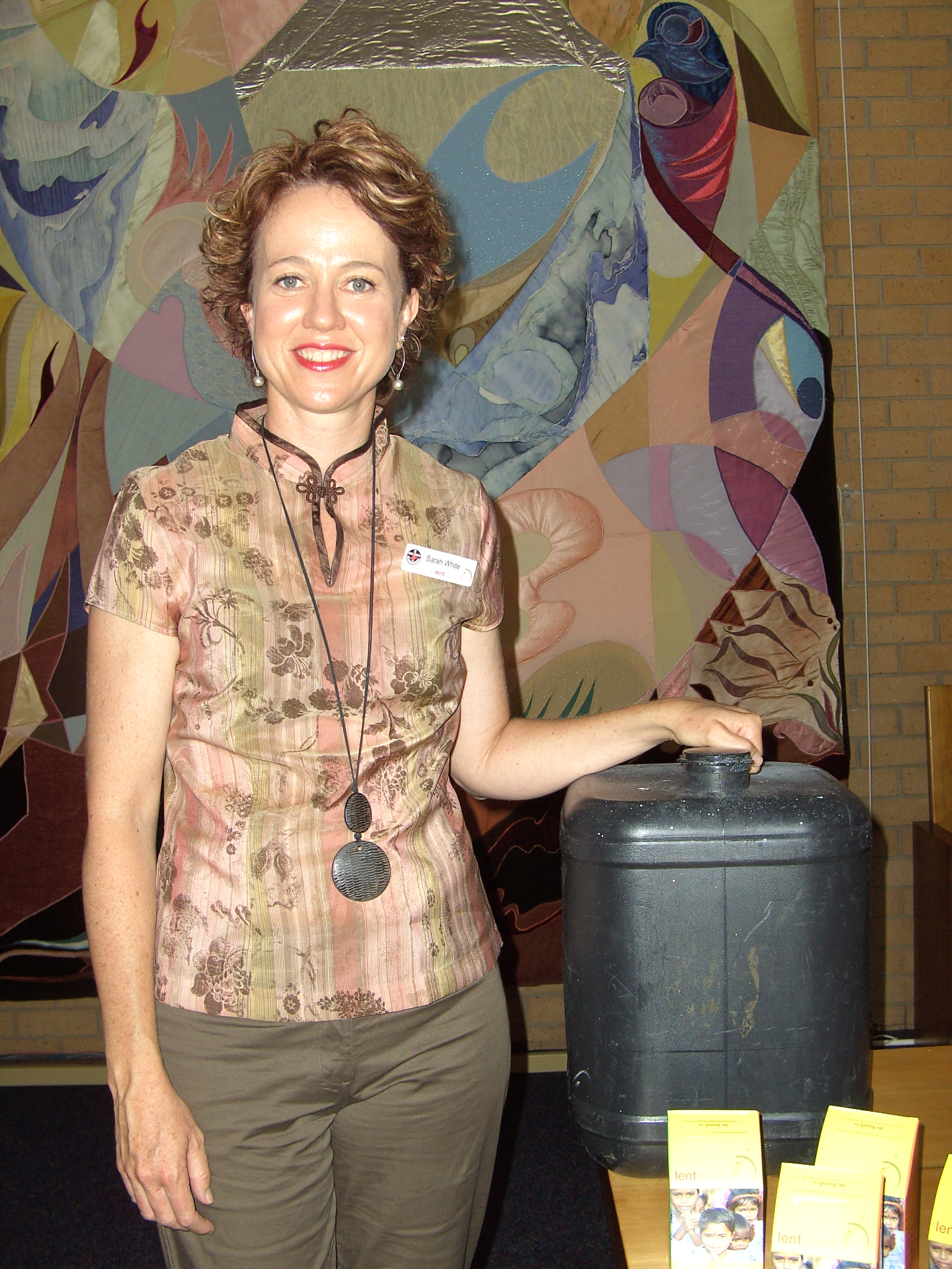 Sarah White, founder of Lent Event